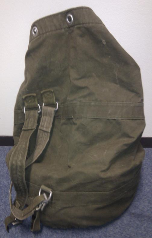 Bundeswehr seabag